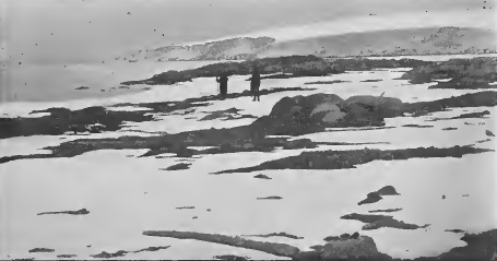 Storøya, Svalbard. Photo bei Richard Friese. Helgoland expedition 1898.